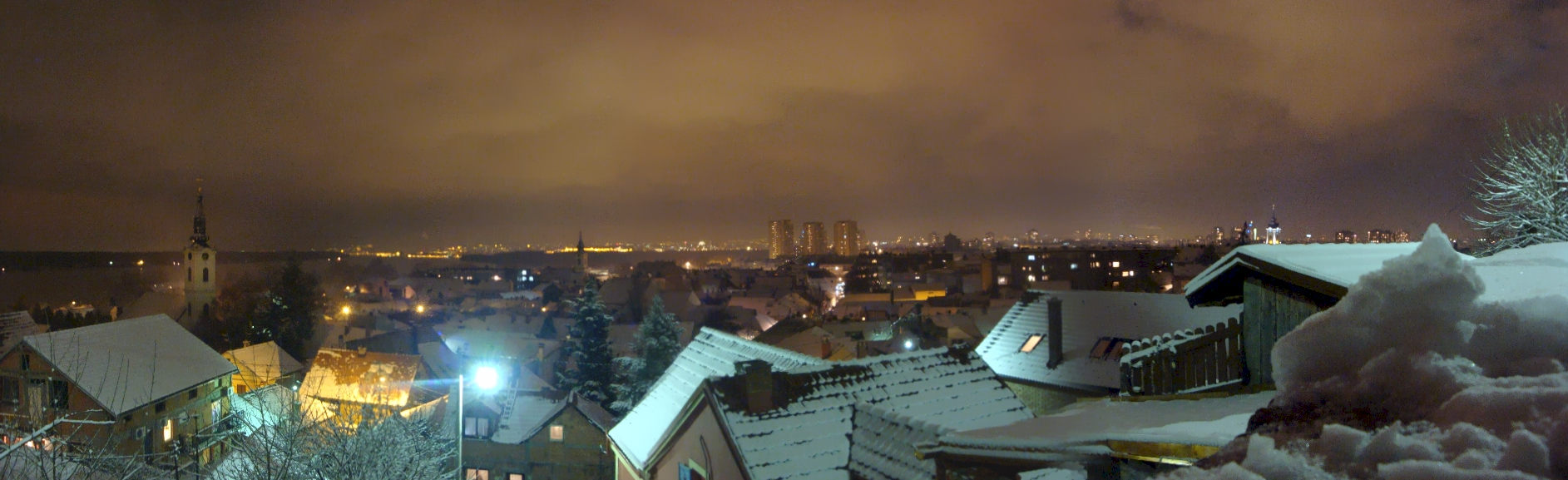 Nocturnal cityscape of the old part of Zemun, seen from Gardoš. Belgrade is visible in the background. Taken with Sony DSC-W150 and made out of three separate photos.